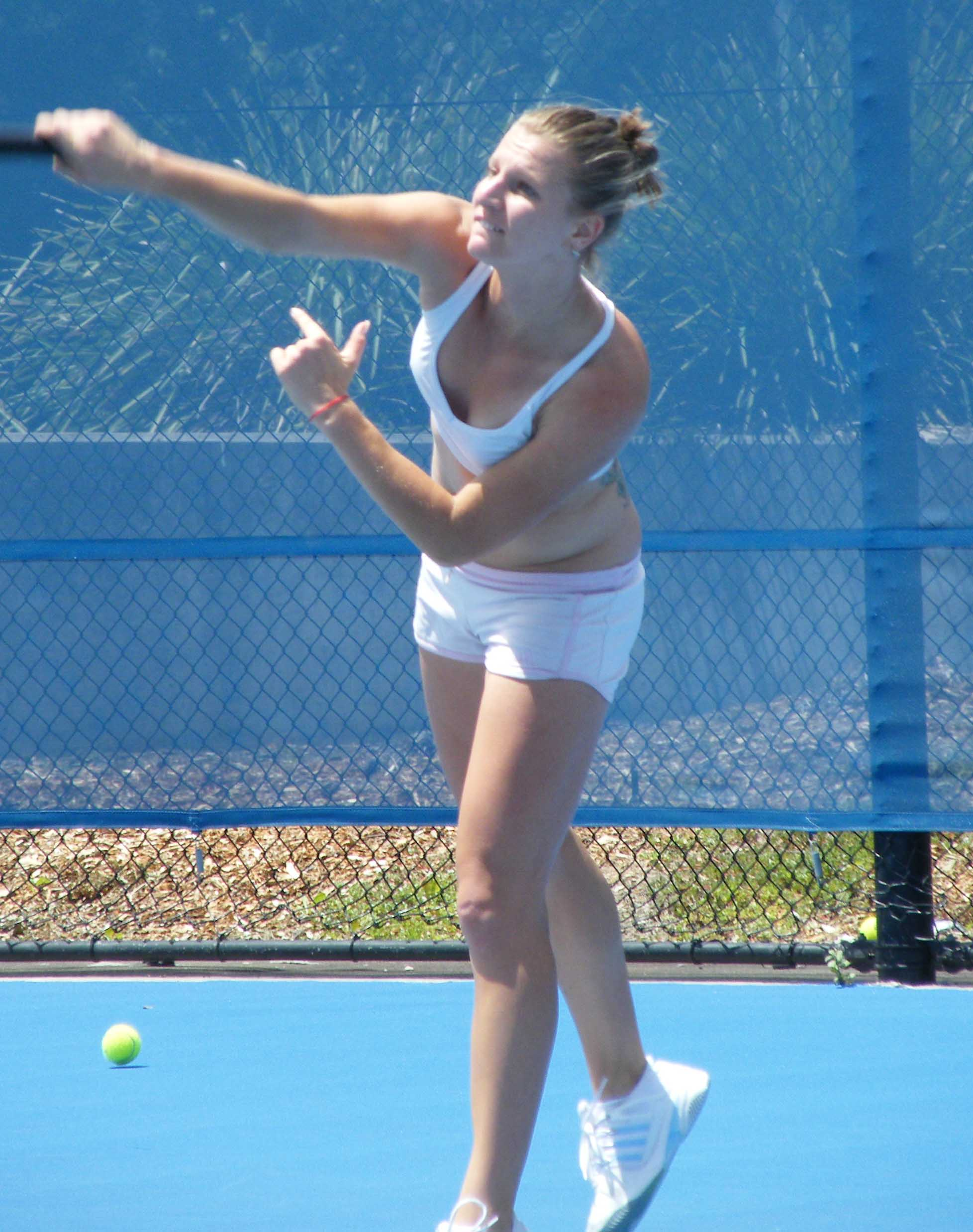 Sesil Karatantcheva of Bulgaria - NSW Tennis Open, January 2009.